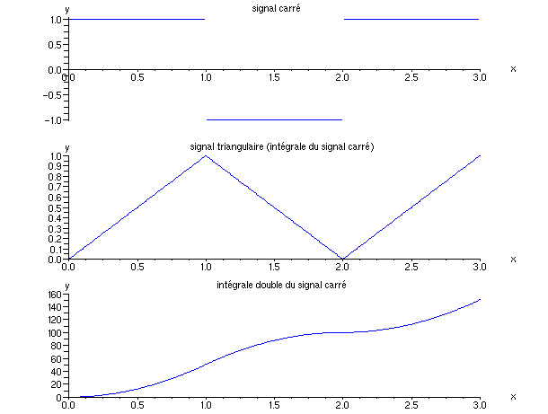 Hat function, triangular function (antiderivative of the hat function) and antiderivative of the triangular function; the later is an example of non-derivability.